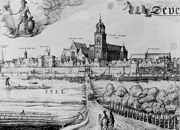 View of Lebuïnuskerk by Claes Jansz. Visscher (1615)